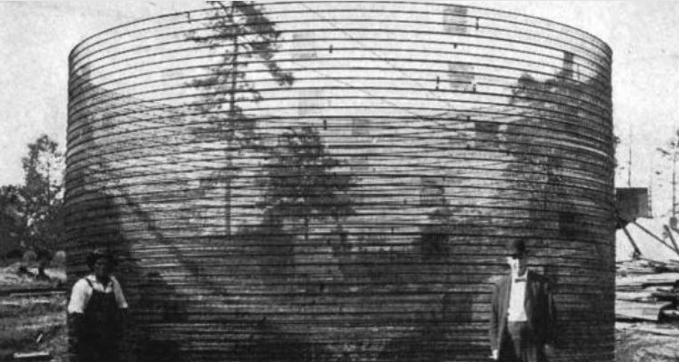 Hy-Rib constructed water tank reservoir